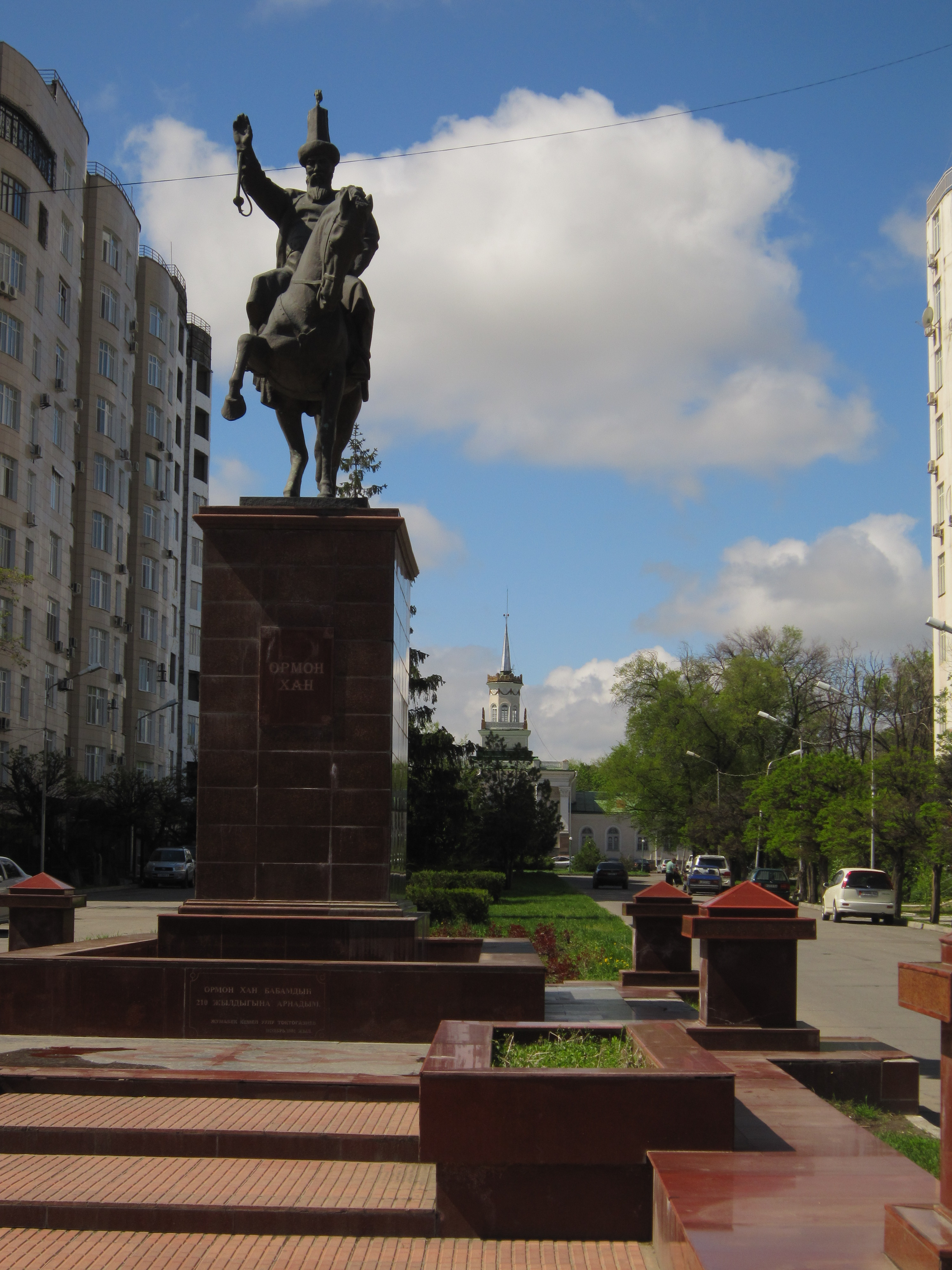 Ormon Khan monument in Bishkek